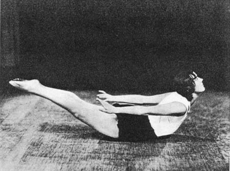 "Seal" posture in the Harmonial Gymnastics of Mollie Bagot Stack, from Building the Body Beautiful, the Bagot Stack Stretch-and-Swing System, 1931. It closely resembles Salabhasana, locust pose, an asana in modern hatha yoga.